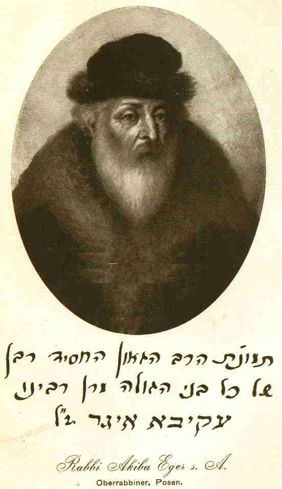 Engraving of Rabbi Akiva Eger. Hebrew inscription reads: "Image of the Great and Pious Rabbi, Master of the Entire Diaspora, Master and Our Teacher, Akiva Eiger, May His Memory Be a Blessing. Chief Rabbi of Posen"